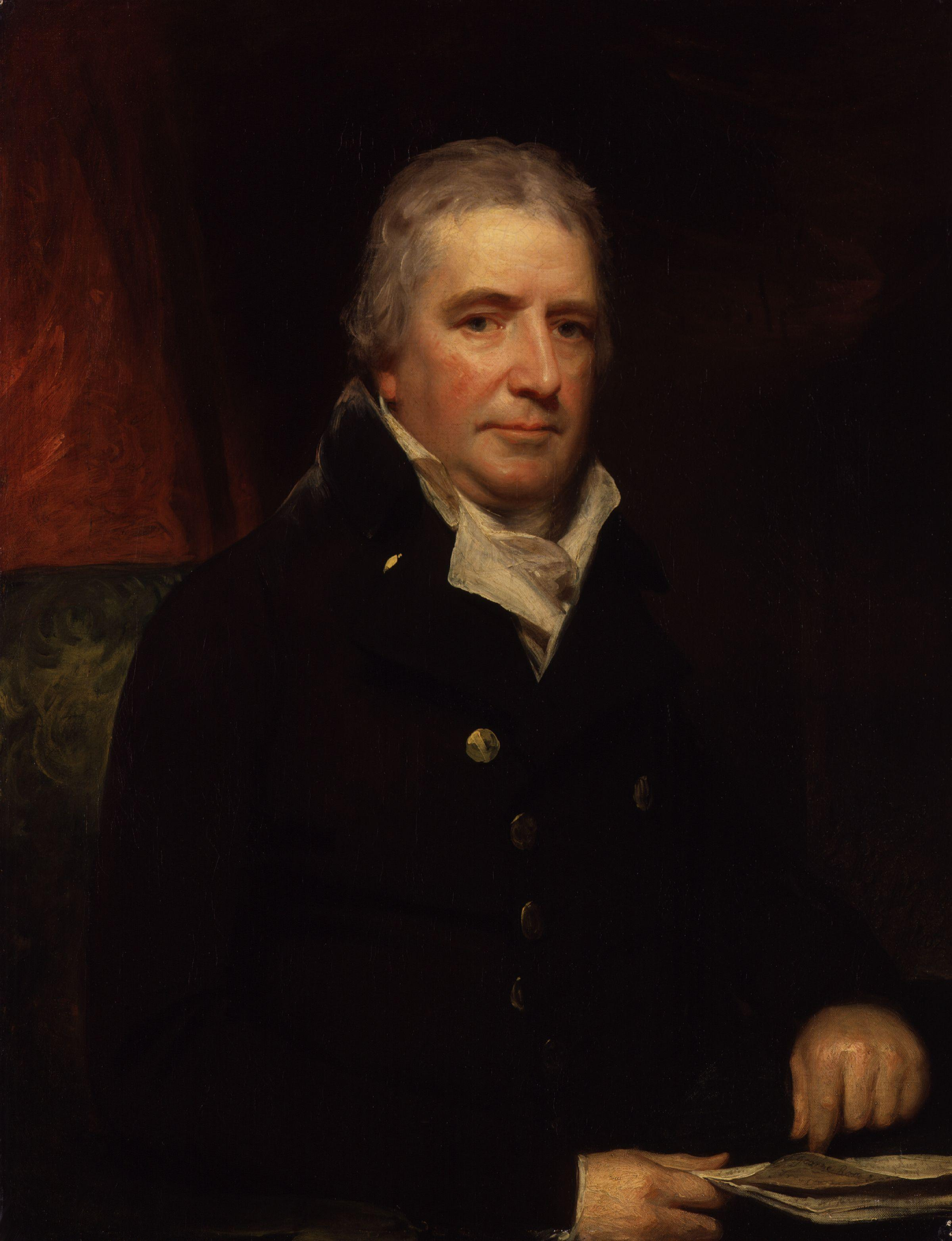 George Rose, by Sir William Beechey (died 1839), given to the National Portrait Gallery, London in 1873. All images in this batch have been confirmed as author died before 1939 according to the official death date listed by the NPG.